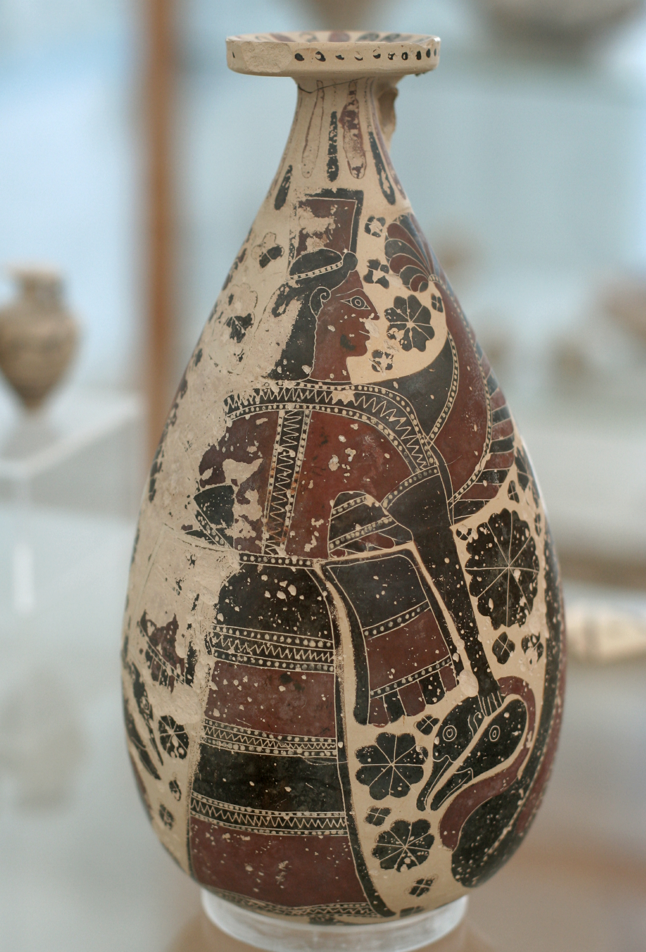 Alabastron, the winged goddess (Artemis, Potnia Theron) with swans. The finding of Heraion on Delos, Corinthian production, 620-600 BC. Archaeological Museum of Delos, B 6192.